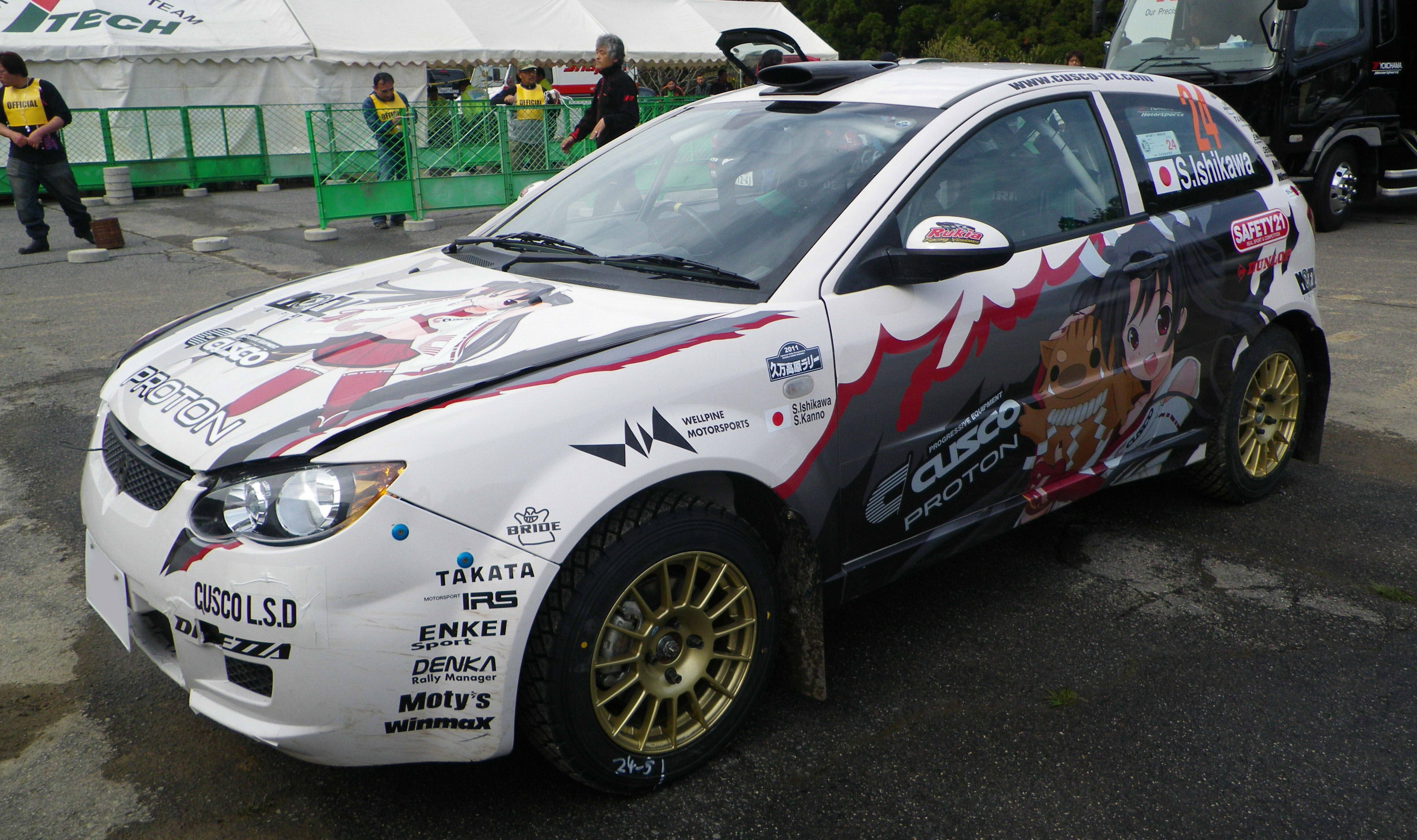 24 CJRT Proton Satria Neo(Driver:Shohei Ishikawa Navigator:Souichirou Kanno)(Cusco Junior Rally Team), Rally Car for Japanese Rally Championship. Kuma-Kougen Rally, JRC2011 Rd.2